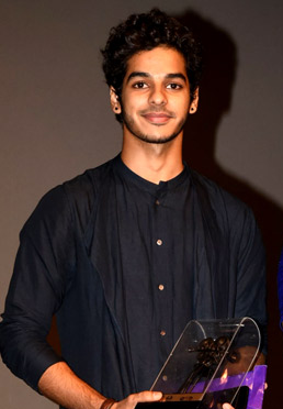 Premiere-of-Beyond-The-Clouds-at-IFFI-2017-in-Goa